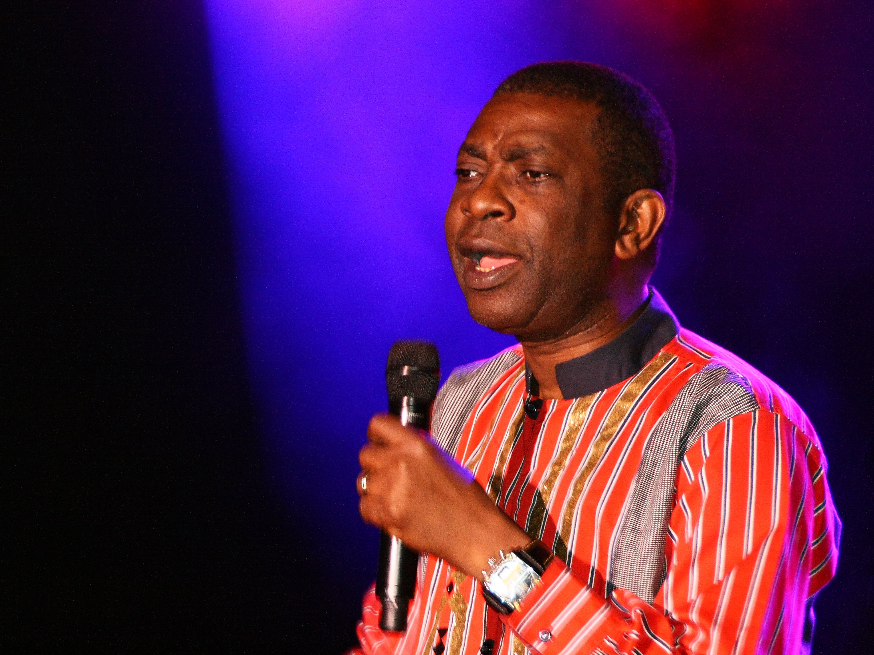 Youssou N´Dour & Le Super Étoile de Dakar playing in a rainy night at TFF Rudolstadt.